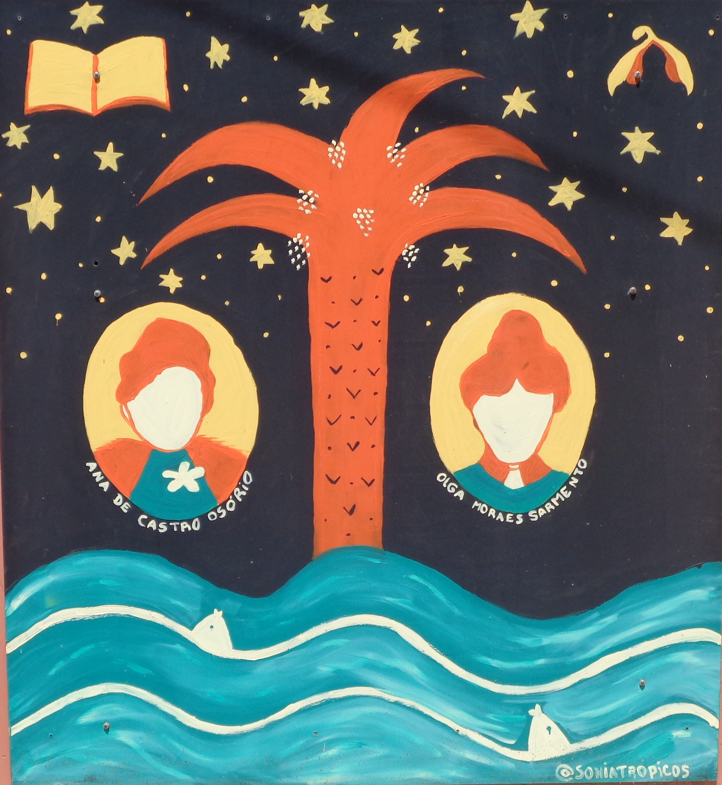 Portuguese writers Ana de Castro Osório and Olga de Morais Sarmento